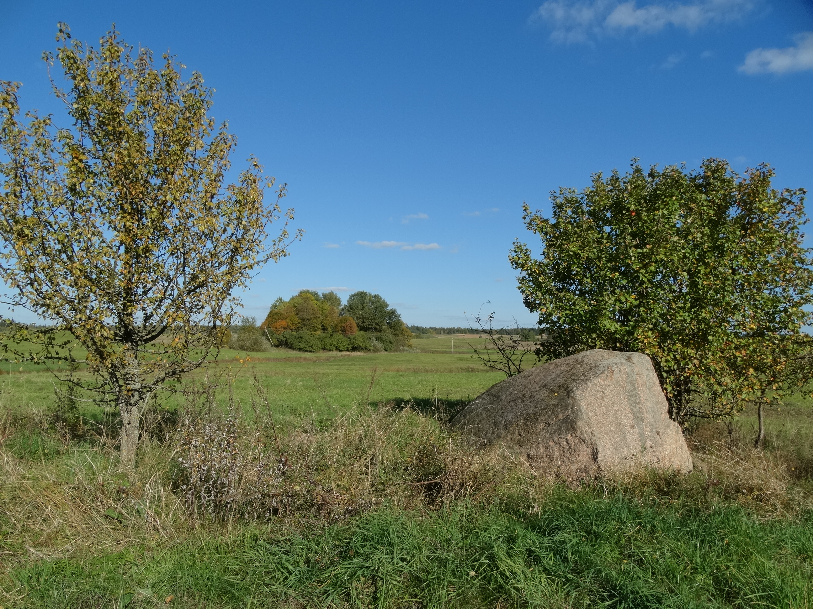 Varkalės I Stone in Varkalės, Kaišiadorys District, Lithuania